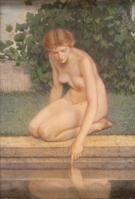 Près d'une claire fontaine (By a clear fountain), watercolor on ivory